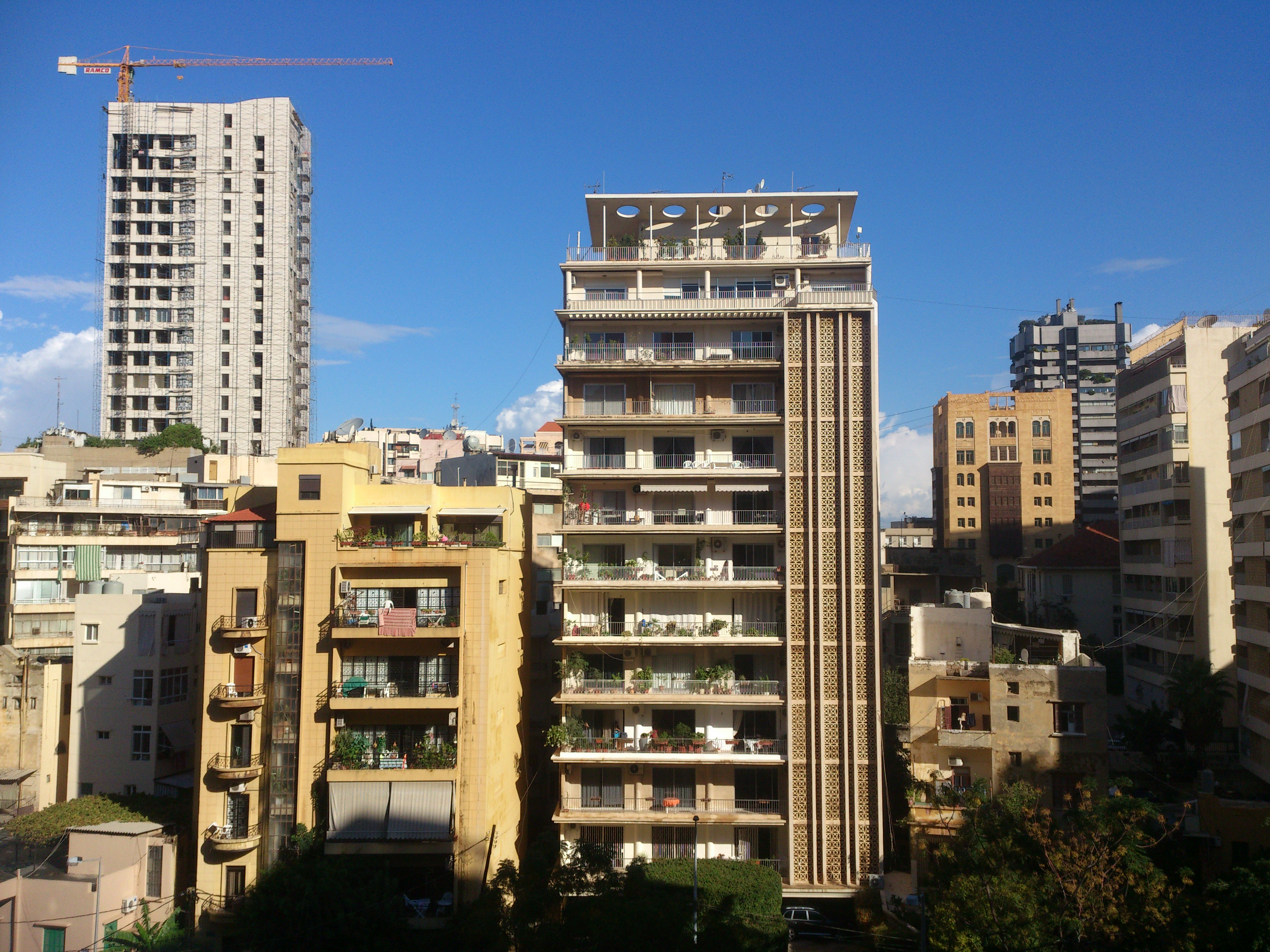 I took this photo during a short holiday in Beirut. The photo shows tall apartment building in Al-Hamra district in Northwest Beirut, October 2012.